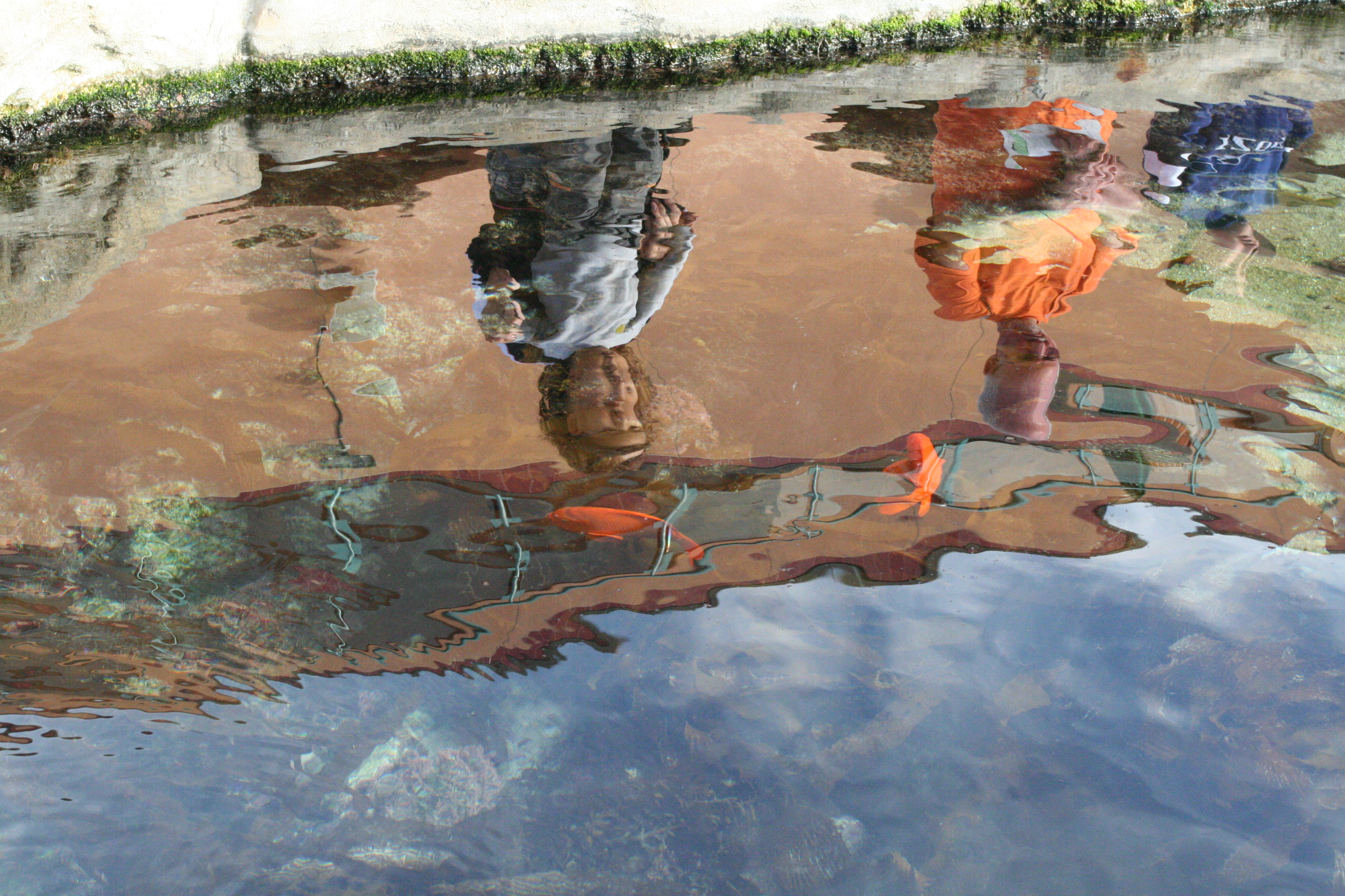 Photograph seventeen people reflected in the surface of the water in a fish pond behind the Birch Aquarium of Scripps Institution of Oceanography in San Diego, California.